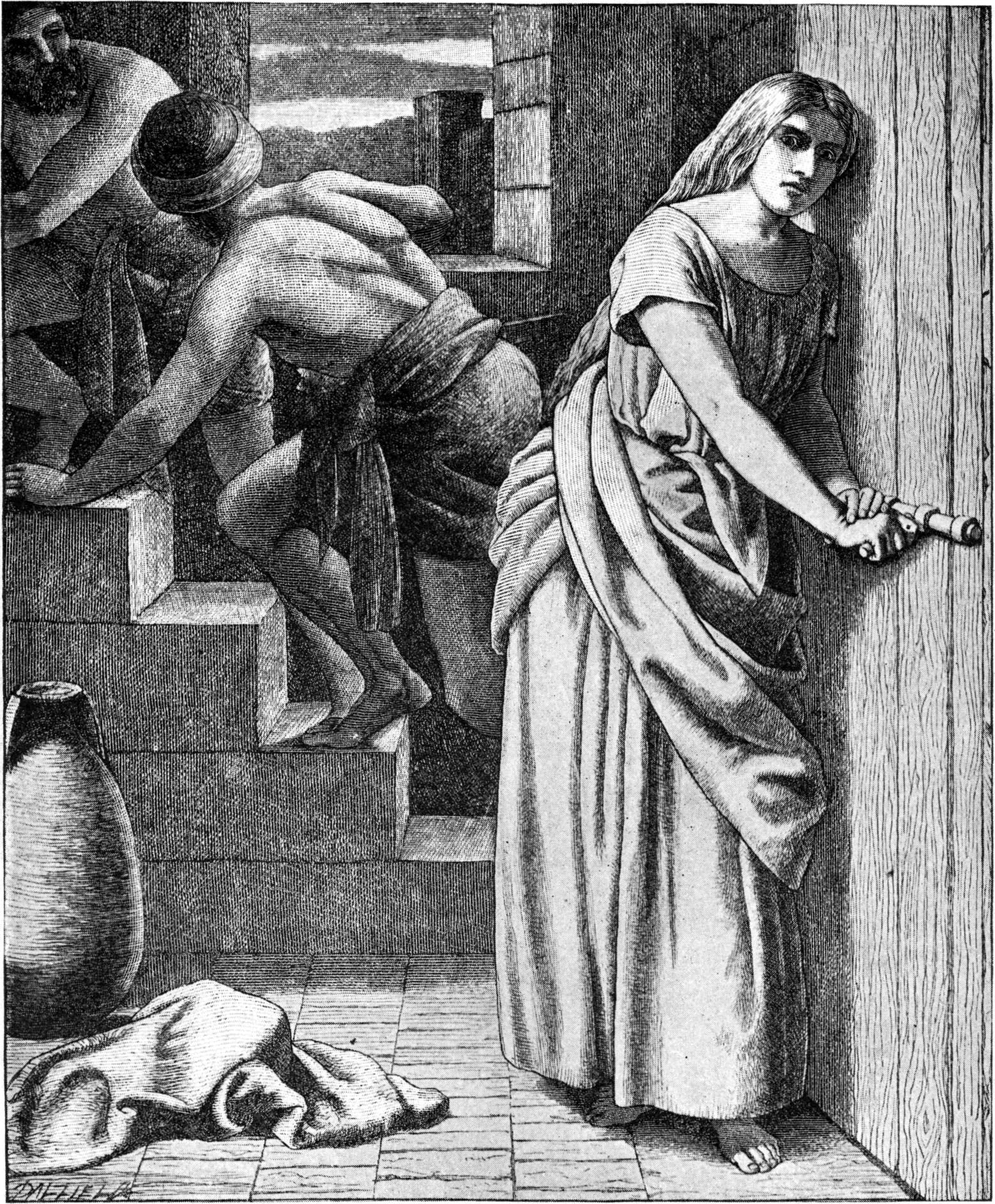 Rahab Helping the Two Israelite Spies. Caption: "These two men are running up to the roof of the house to hide. The woman is helping them. Her name is Rahab. The men are Israelites. They have come to the city to spy ; to see how many people live there, and how rich they are. The city is named Jericho. Soldiers will look for the men to kill them." Illustration from the 1897 Bible Pictures and What They Teach Us: Containing 400 Illustrations from the Old and New Testaments: With brief descriptions by Charles Foster